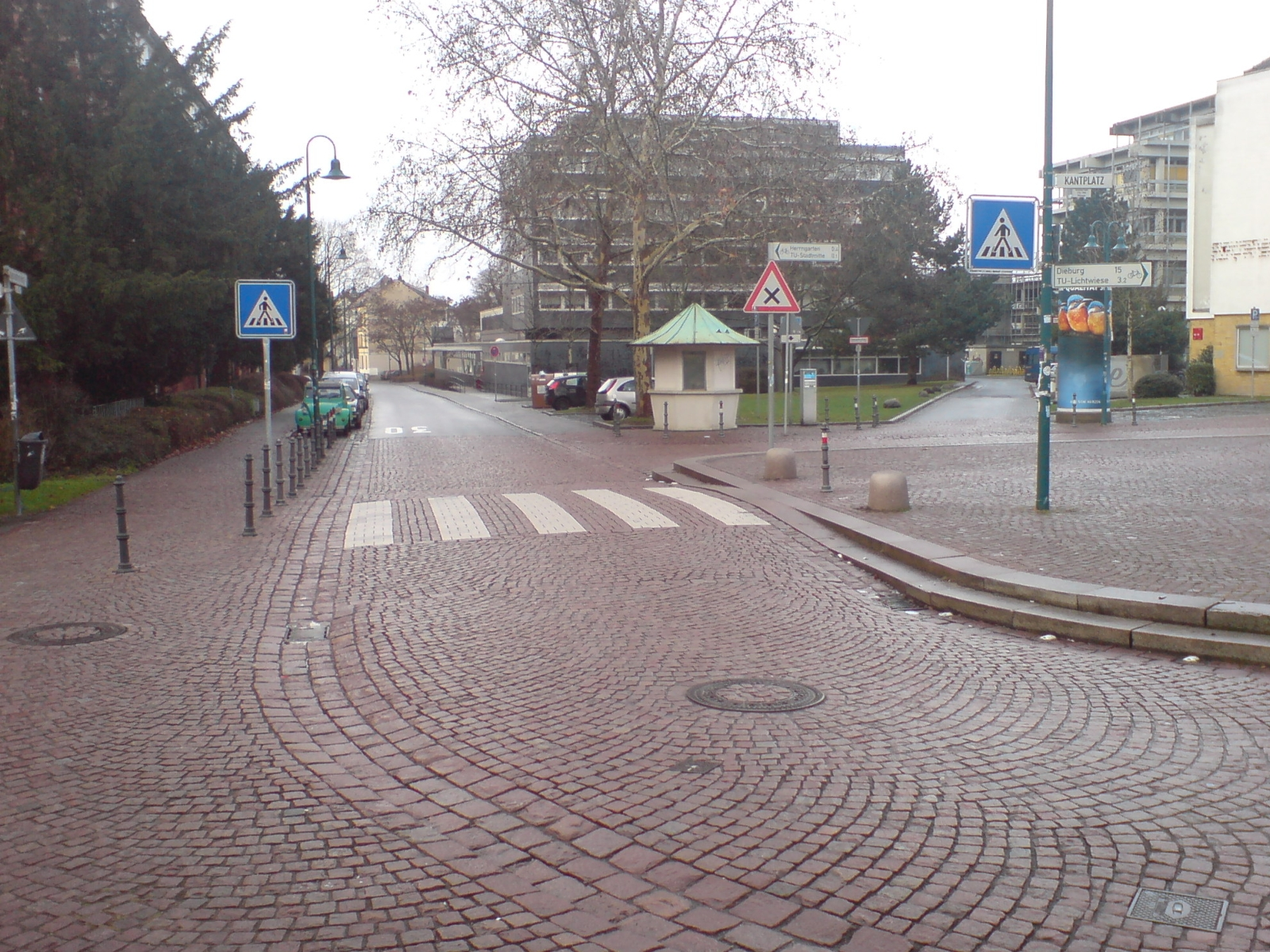 A pavement and raised pedestrian crossing, paved with stone setts - in common parlance often incorrectly described as "cobblestones" - near the TUD university in Darmstadt, Germany.